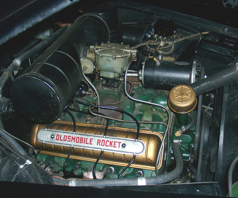 This photo shows the Rocket V8 engine of my own car, a 1949 "98" Olds fastback sedan. It shows the first version of this engine which is considerably different from engines produced later. This photo shows the Rocket V8 engine of my own car, a 1949 "98" Olds fastback sedan. It shows the first version of this engine which is considerably different from engines produced later.